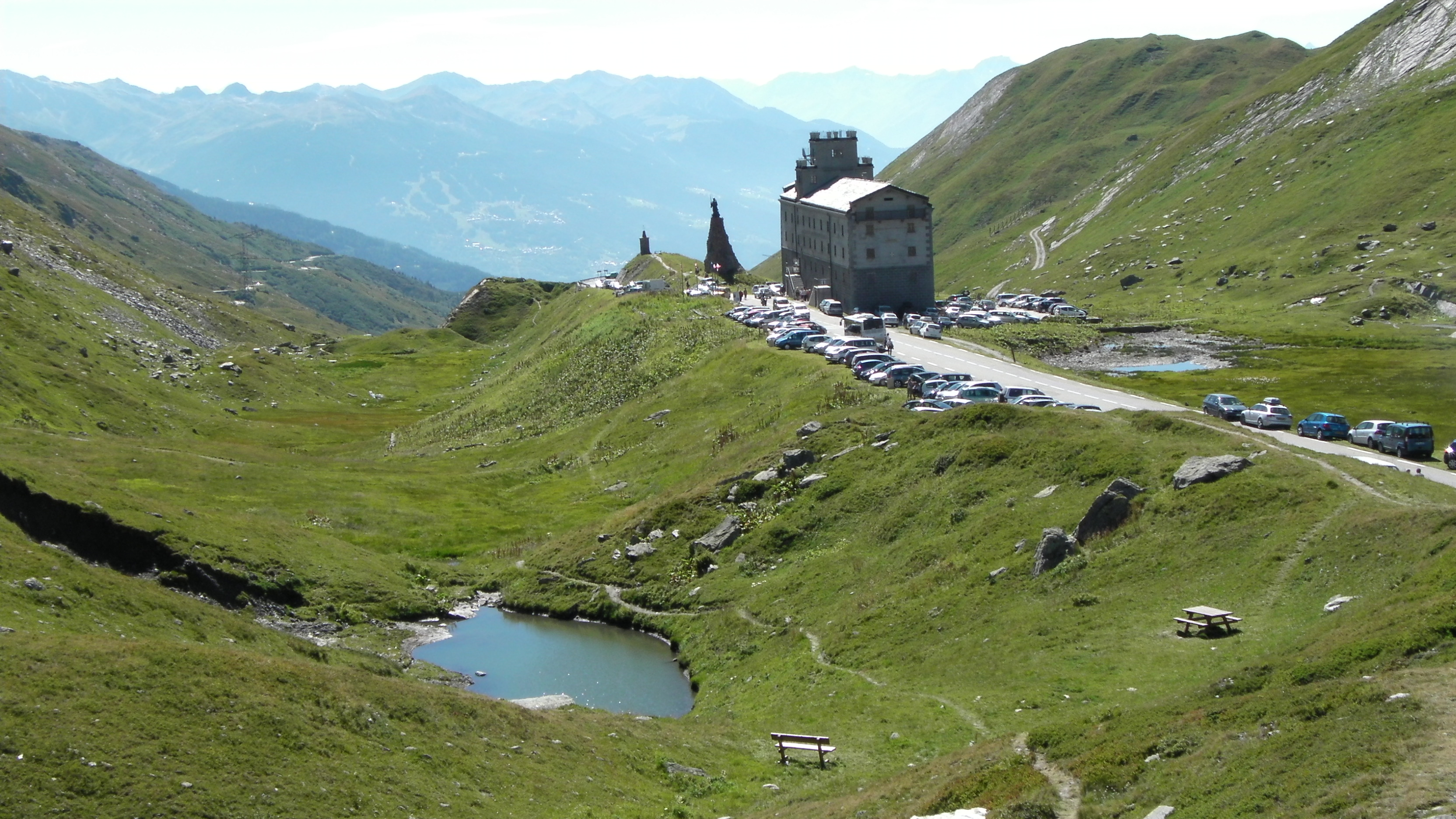 Hospice du Petit-Saint-Bernard